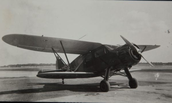 Waco ZQC-6 light transport biplane.